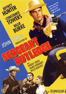 Theatrical poster for the film Sergeant Rutledge (1960)